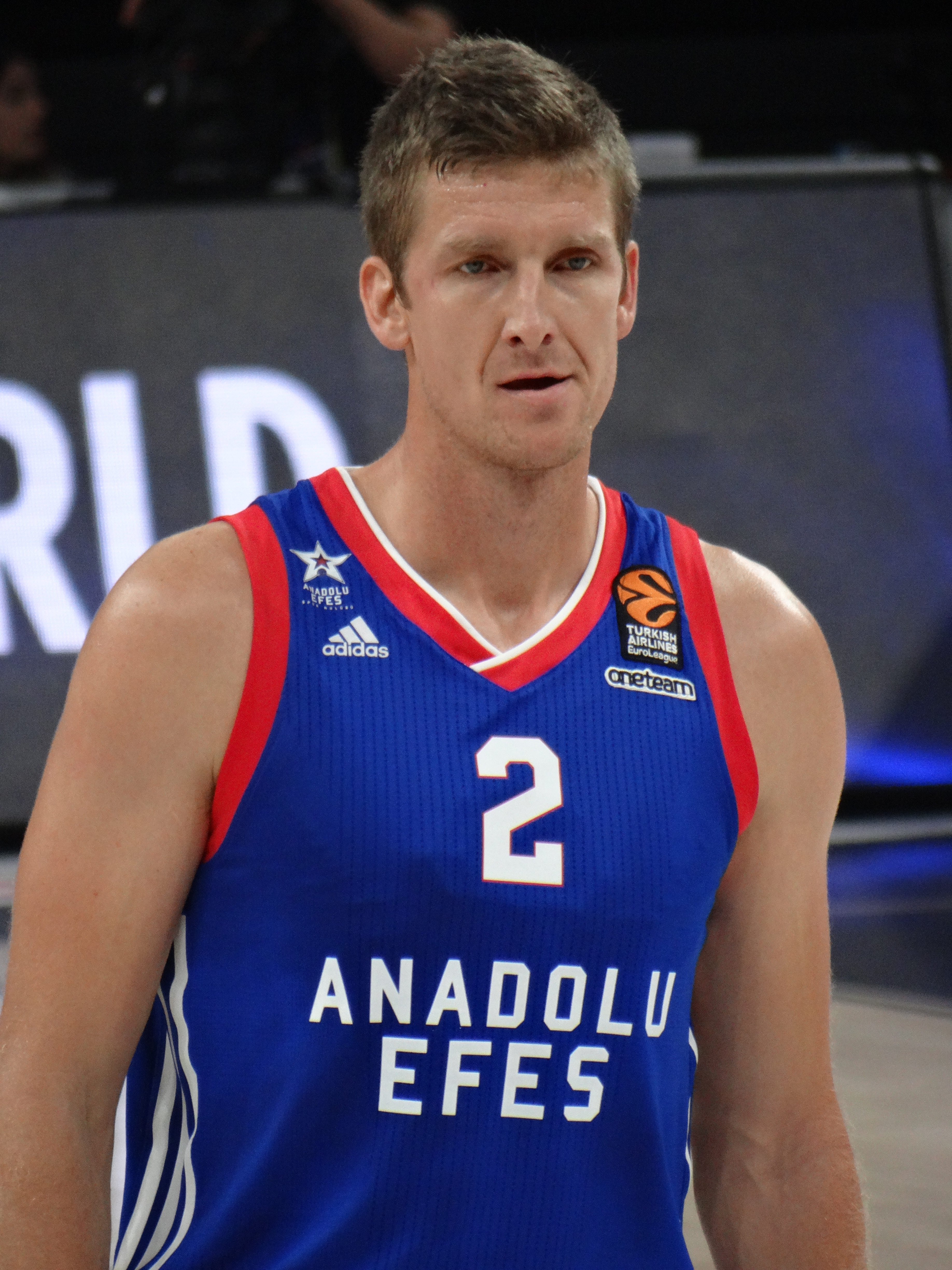 Justin Doellman 2 - Anadolu Efes S.K. 20171027